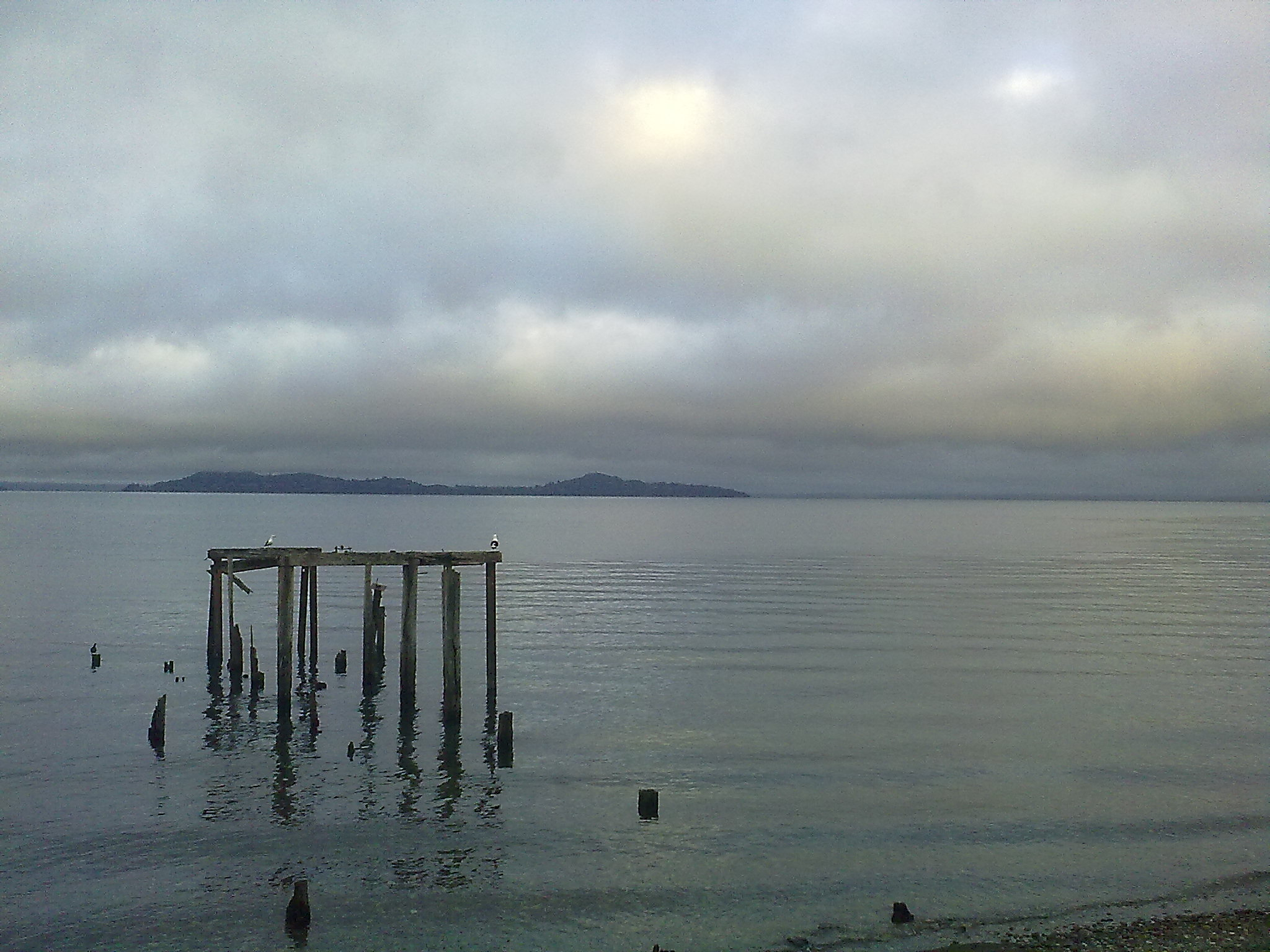 Llifen port, Futrono, Region los rios, Chile